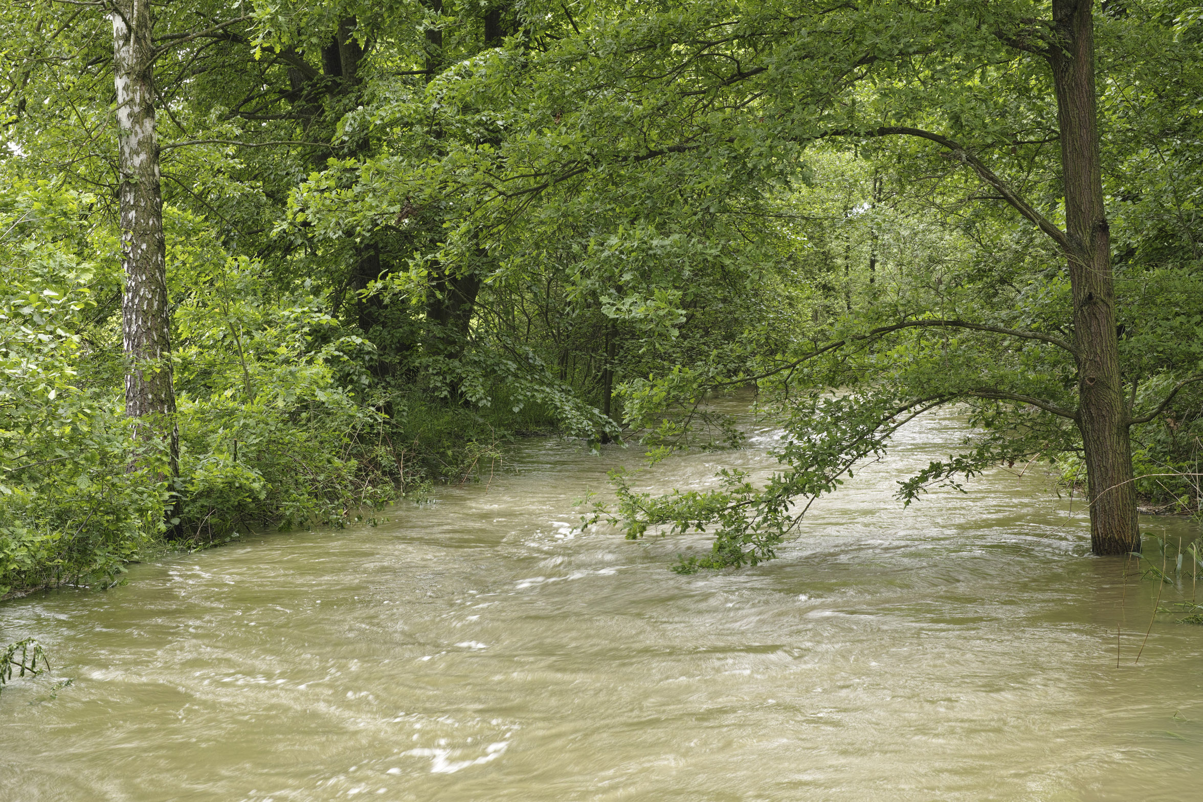 Dehtářský potok, 2013 floods, Czech Republic